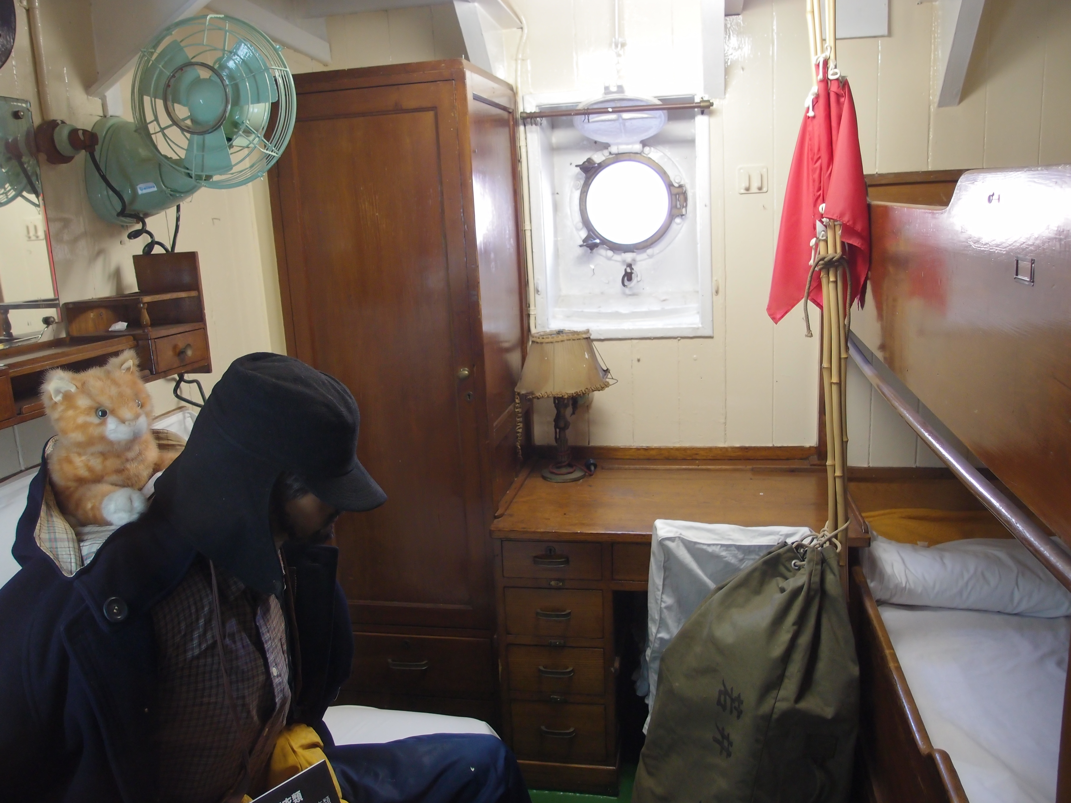 Icebreaker Soya @ Maritime Museum @ Tokyo